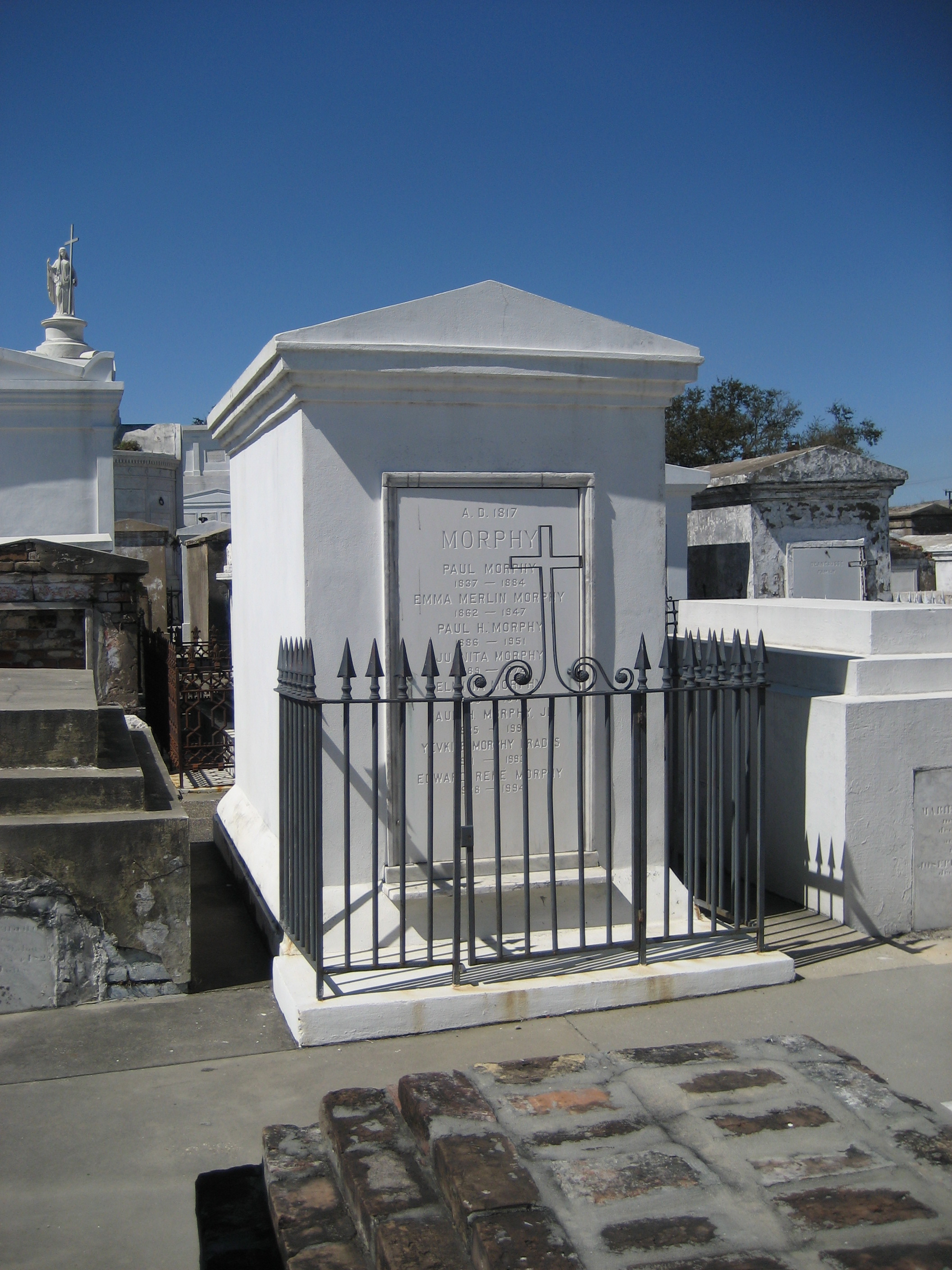 St. Louis Cemetery #1, New Orleans. Tomb of chess champion Paul Morphy